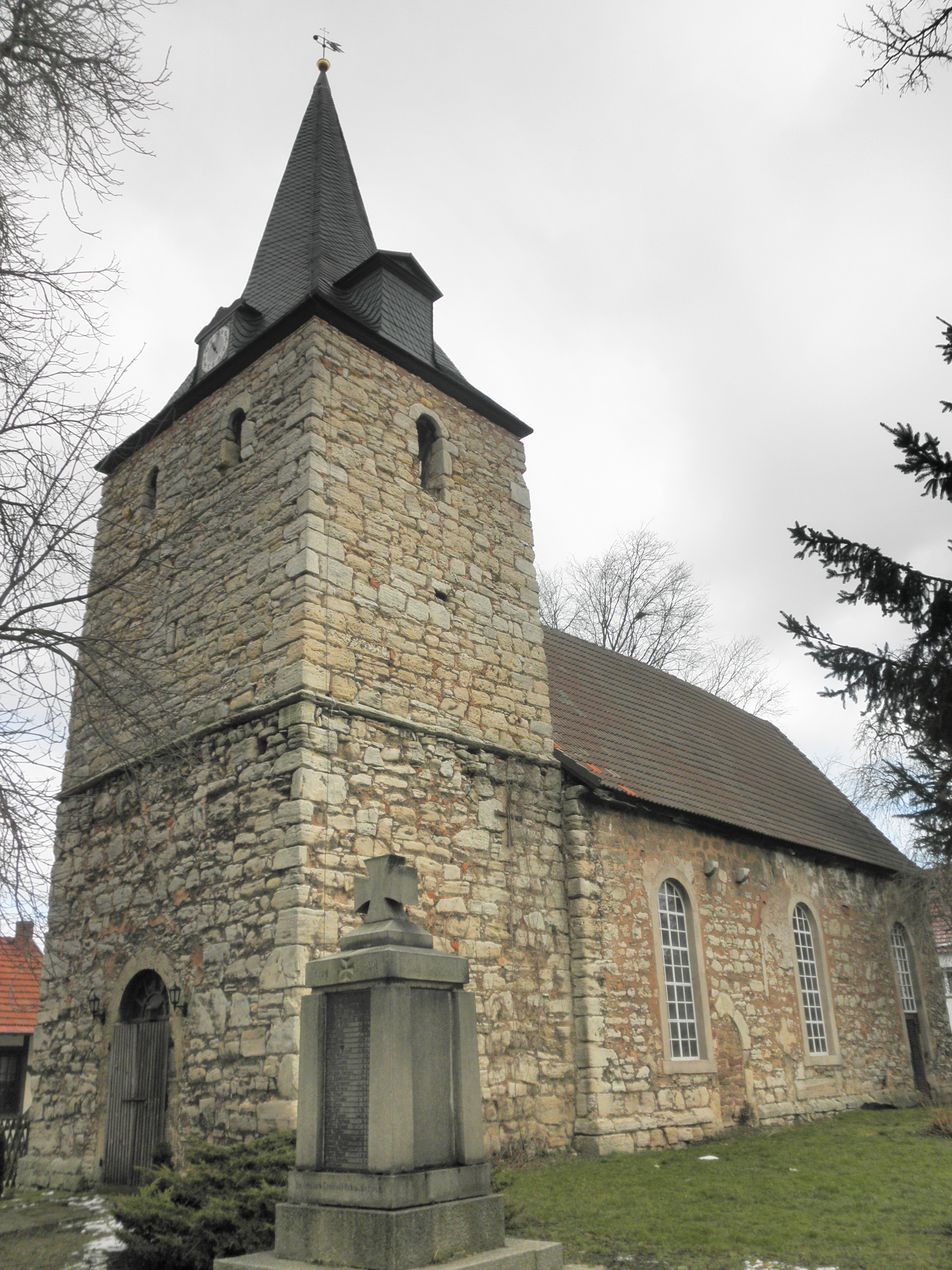 Church in Nohra (Wipper) in Thuringia